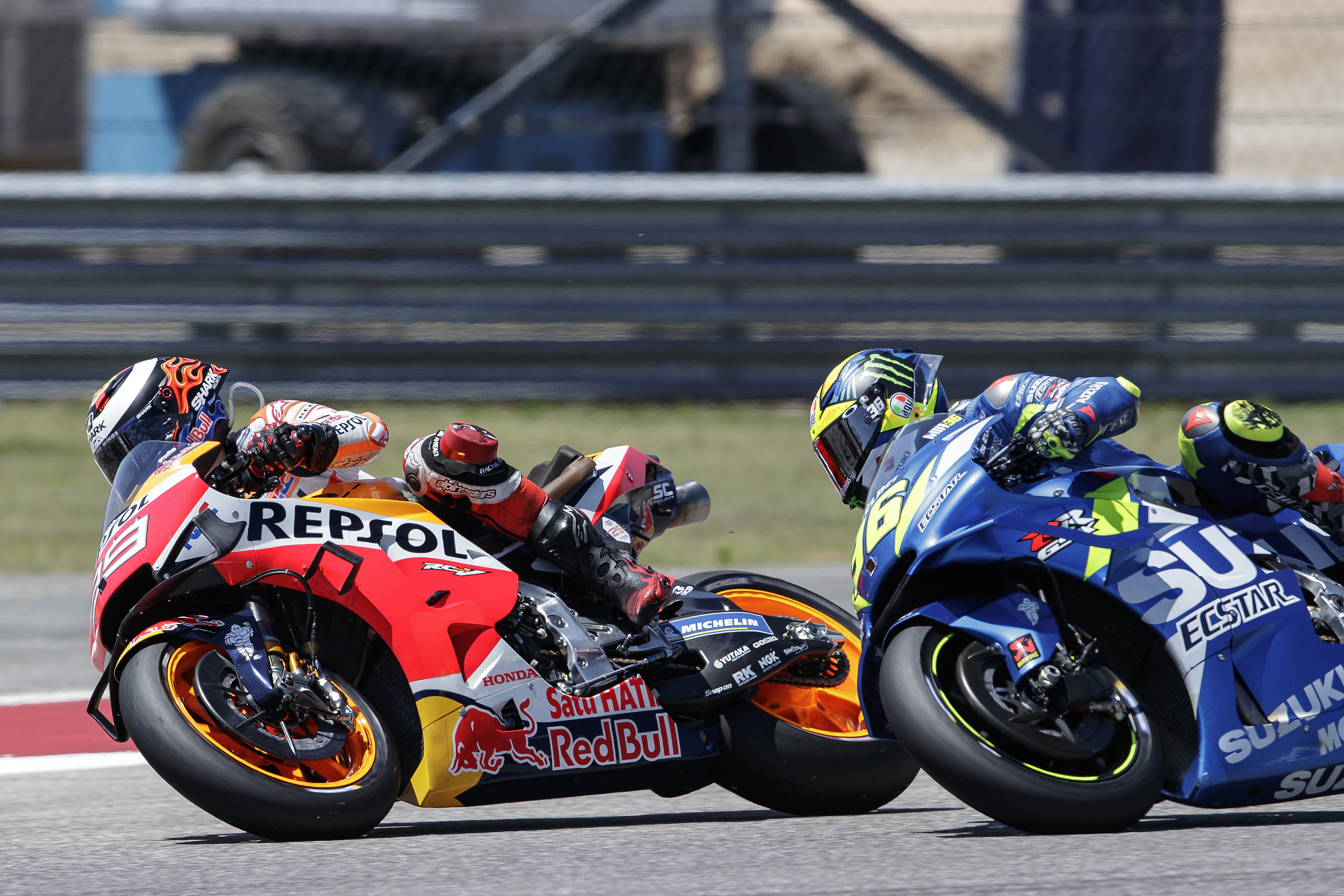 Jorge Lorenzo, riding his Repsol Honda, being followed by the Ecstar Suzuki of Joan Mir at the 2019 Grand Prix of the Americas.